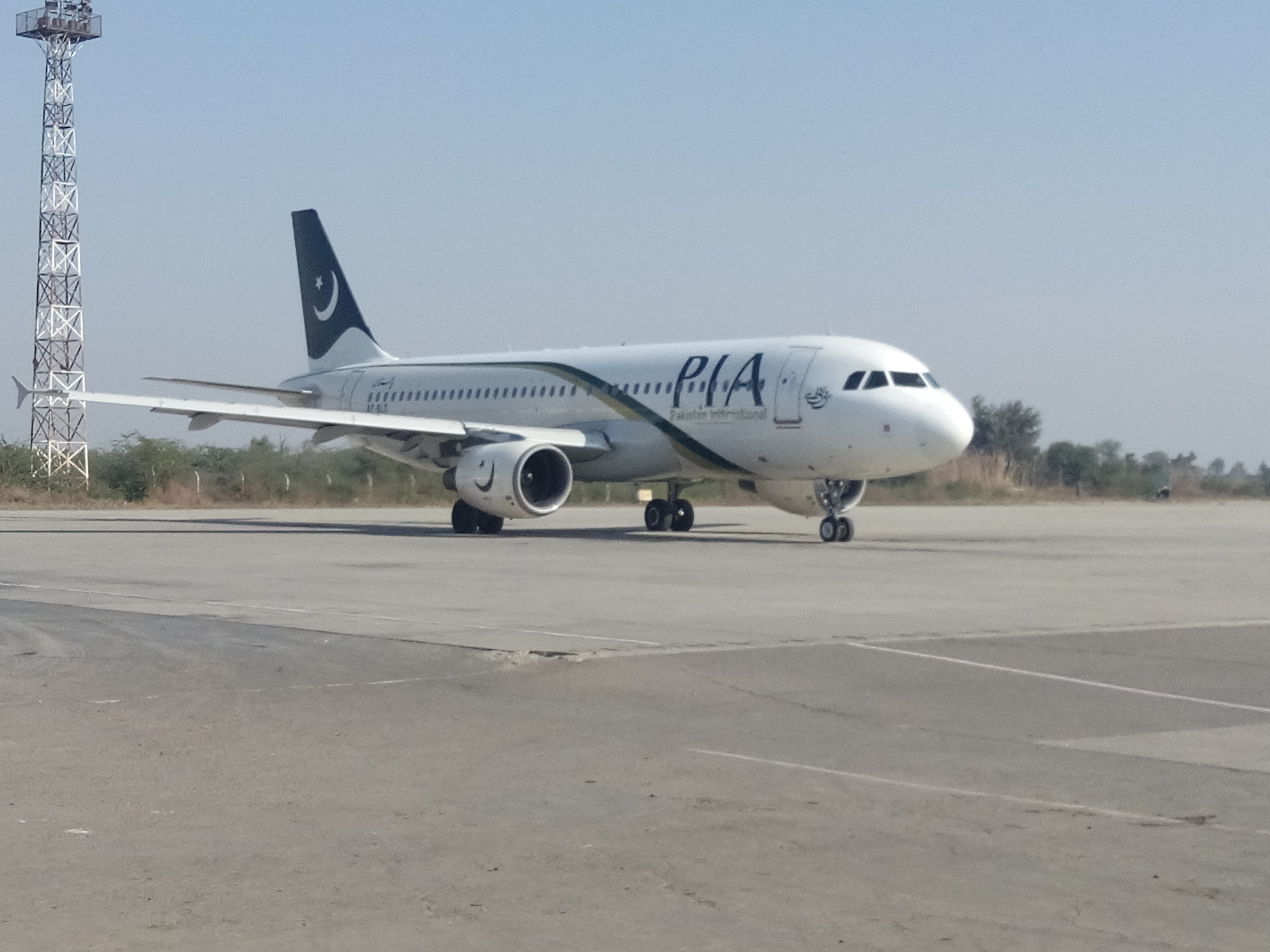 Airline Pakistan International Airlines Status : Active Registration : AP-BLD Airport: Faisalabad International Airport Airport Code: LYP/OPFA Comments: Flight arrived from Karachi (Domestic operations)